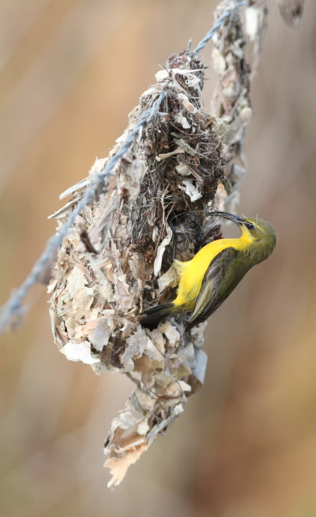 Female sunbird at the nest. I scared her with the camera noise, so I retreated